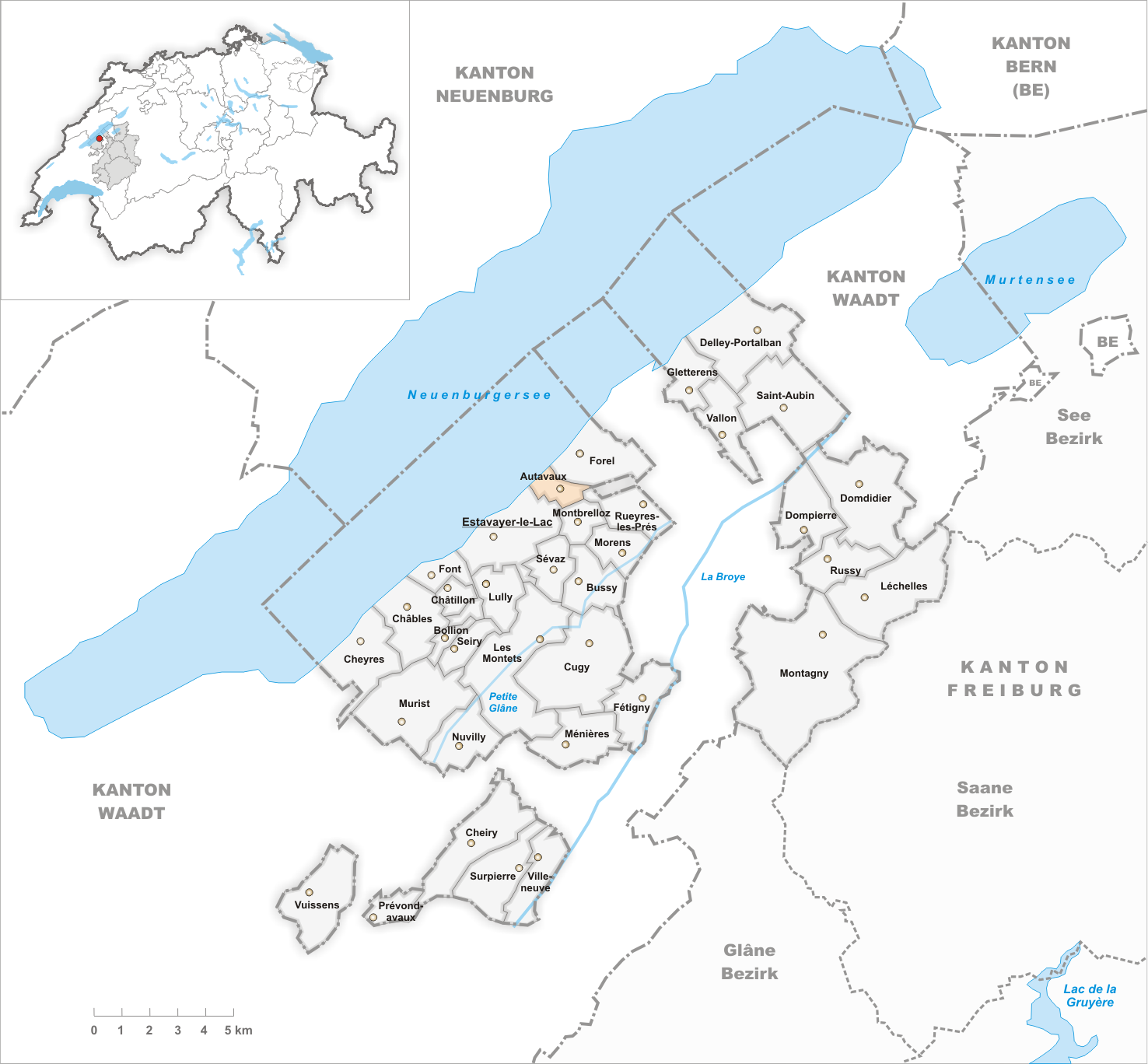 Municipality Autavaux Artist: Tschubby